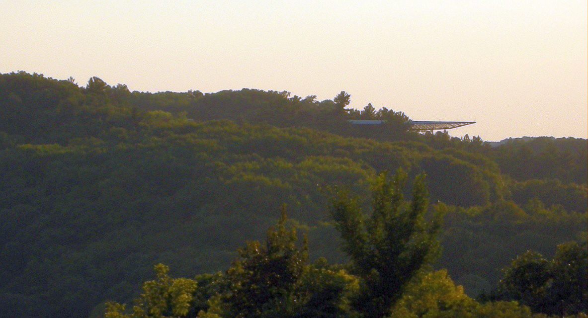 A view of the Infinity Room jutting out over the Wyoming Valley, from precisely .75 miles away to the North East at the official overlook station.